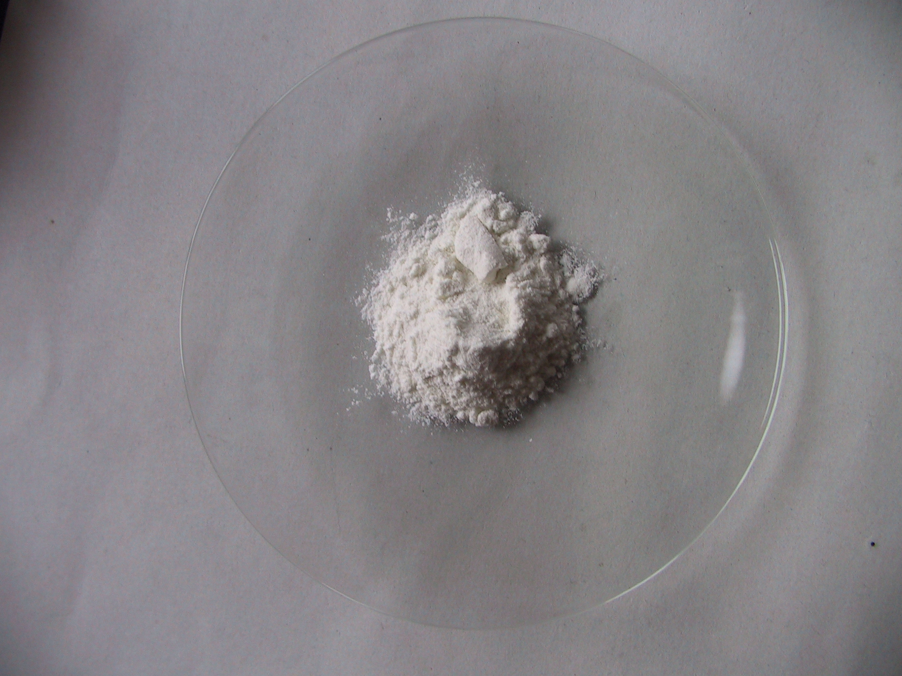 Gummi Arabicum, selbst fotografiert, 28.01.07 Xato 16:34, 28. Jan. 2007 (CET)